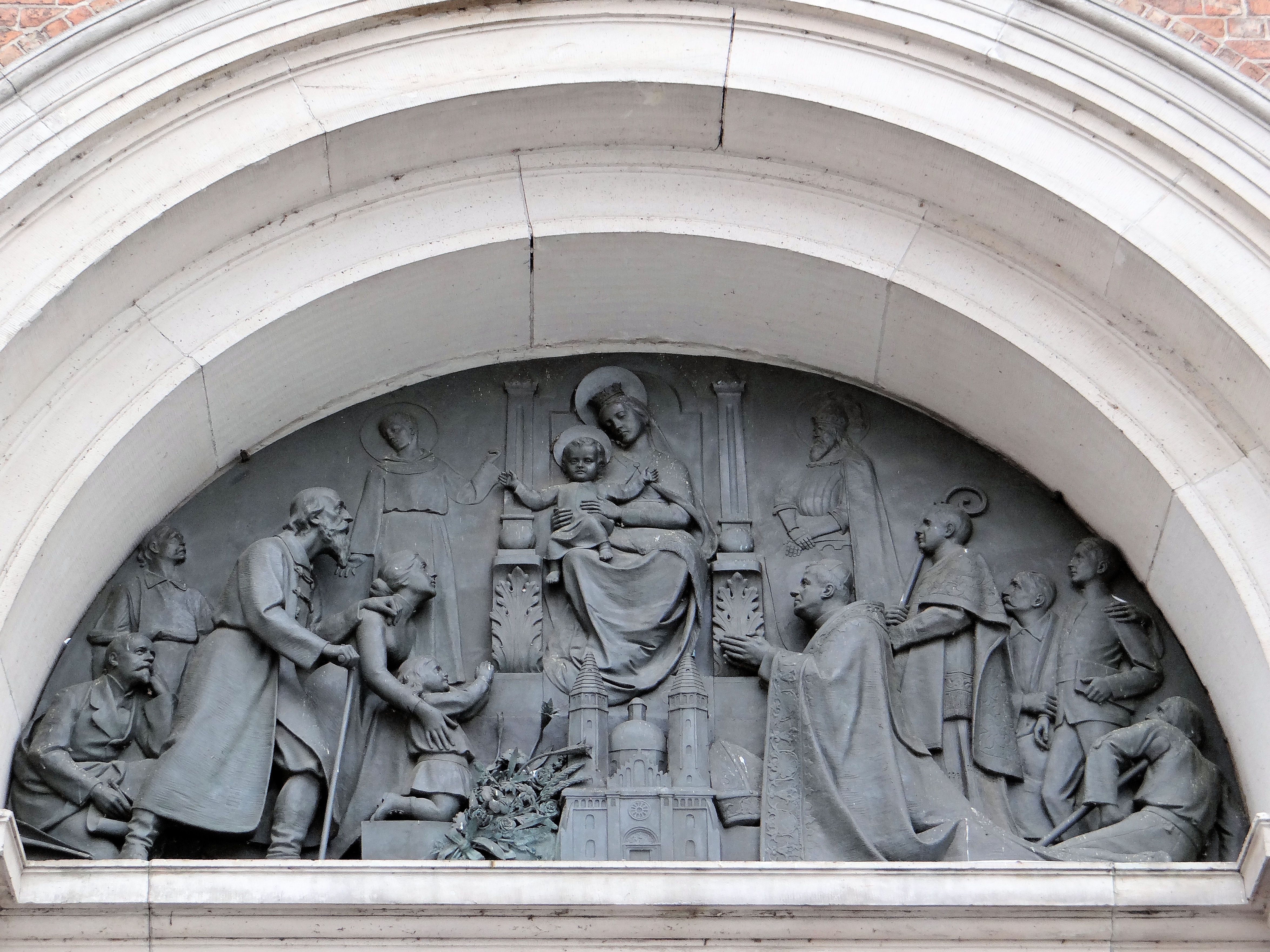 Detal of Płock Cathedral